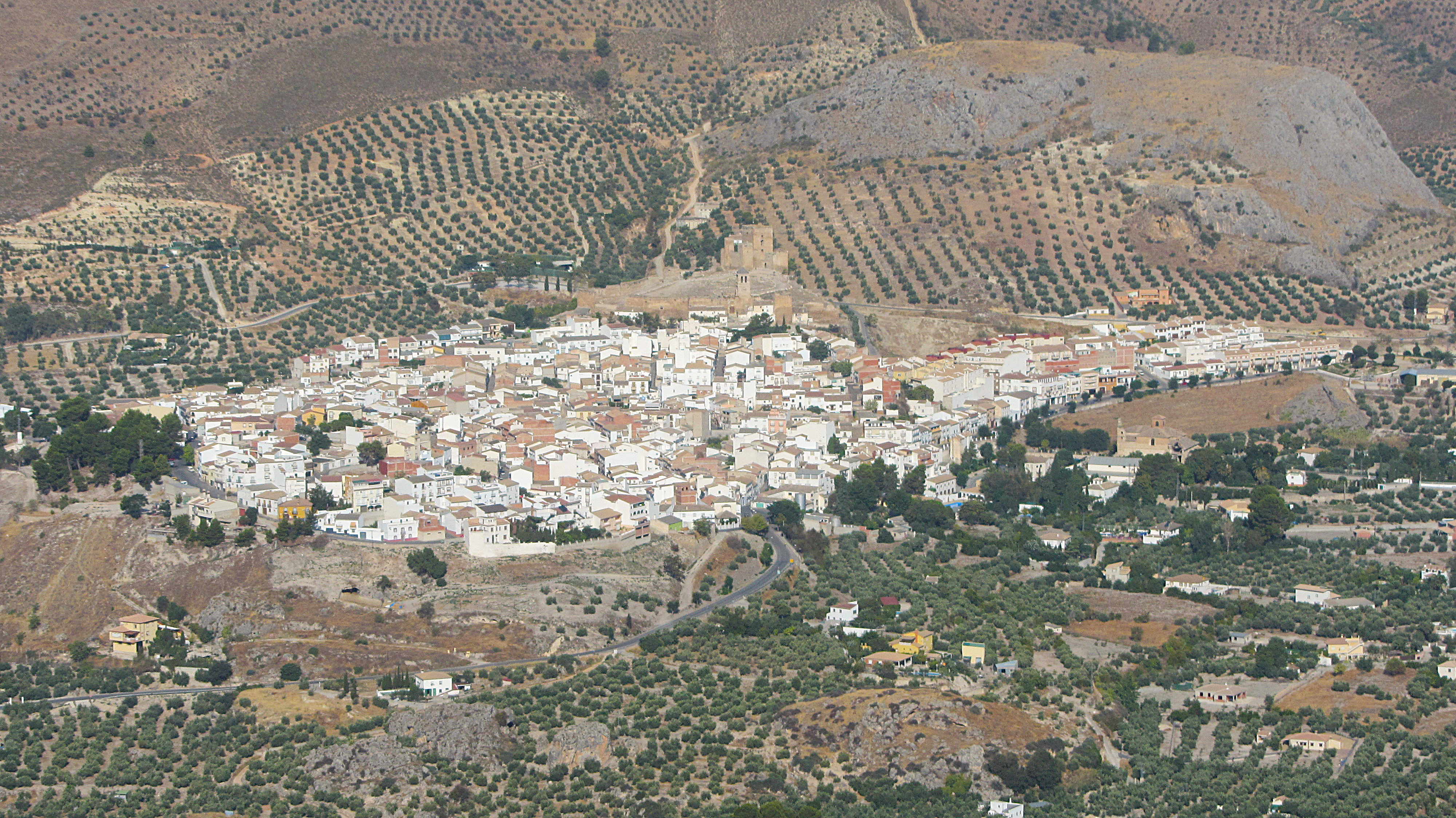 Panoramic view of La Guardia de Jaén (Andalusia - Spain) taken from the Serrezuela of Pegalajar.